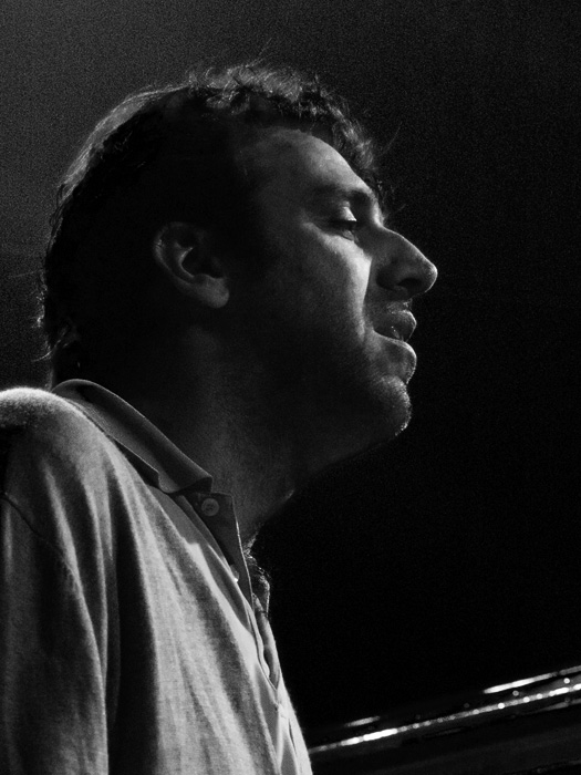 Gonzales at moers festival 2006 own photo, june 4, 2006- photo: nomo/michael hoefner